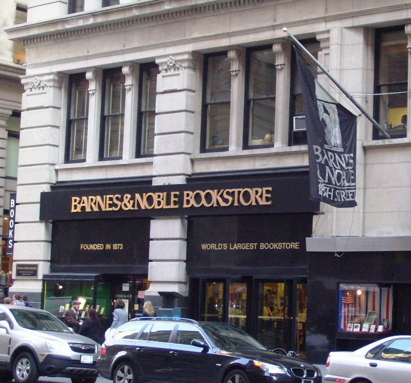 Barnes & Noble's former flagship store at 105 Fifth Avenue in Manhattan, New York City. This space is currently occupied by Banana Republic